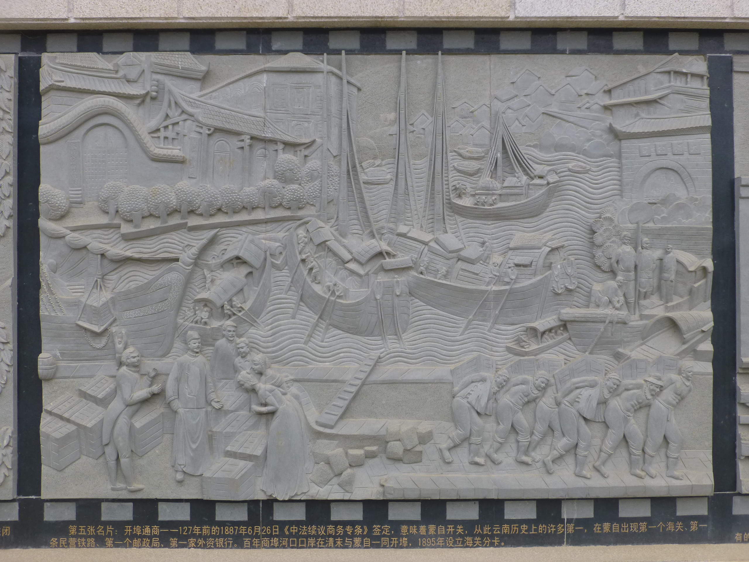 The opening of Sino-French trade in Yunnan after the signing of the bilateral commercial agreement in 1887. (A modern artist's rendering). Panel No. 5 of the relief decorating the square of the new Hekou North (Hekoubei) Railway Station, on the standard-gauge Kunming-Yuxi-Hekou Railway